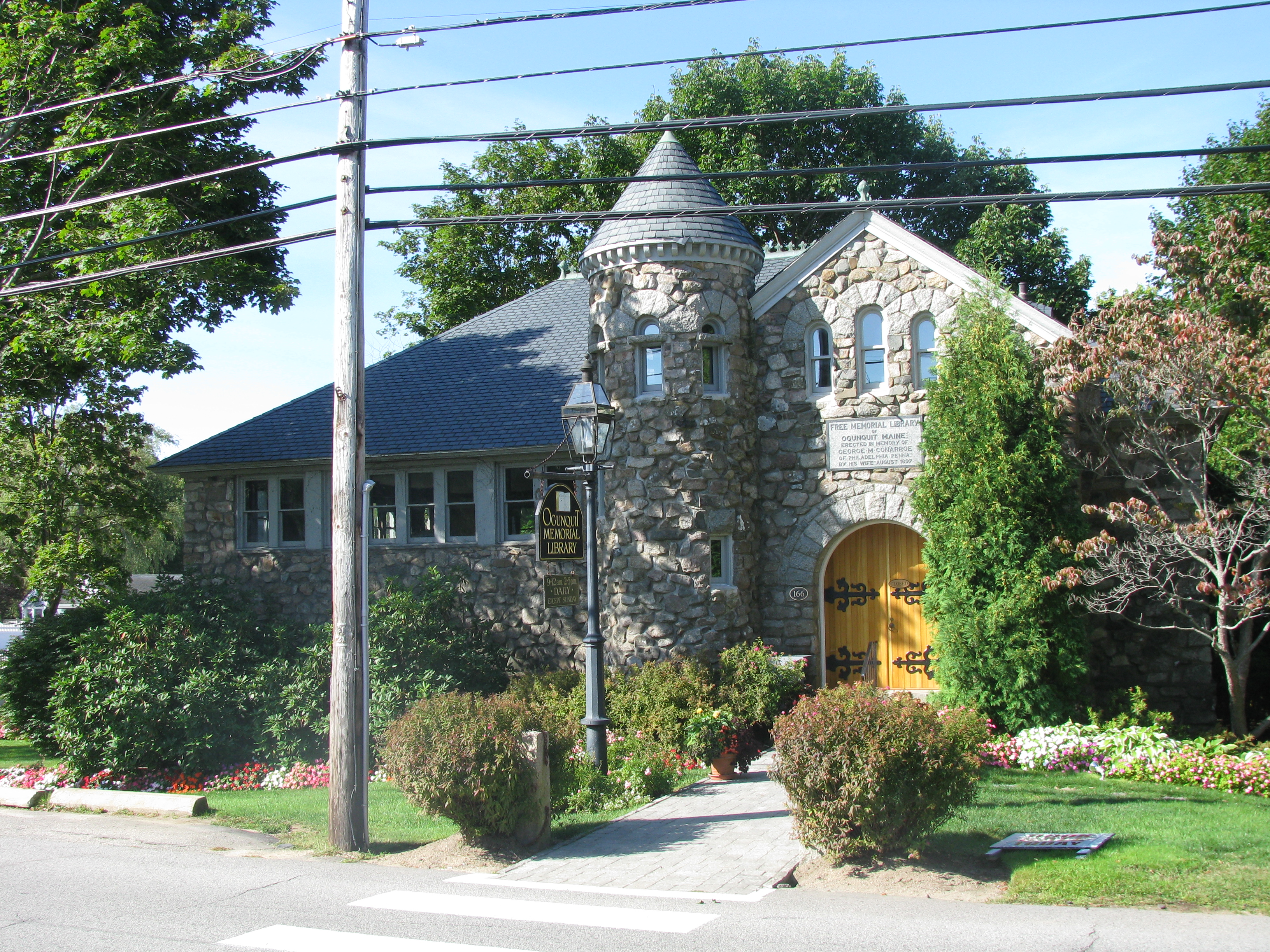 The Ogunquit public library in Ogunquit, Maine. - Google Maps - Google Earth